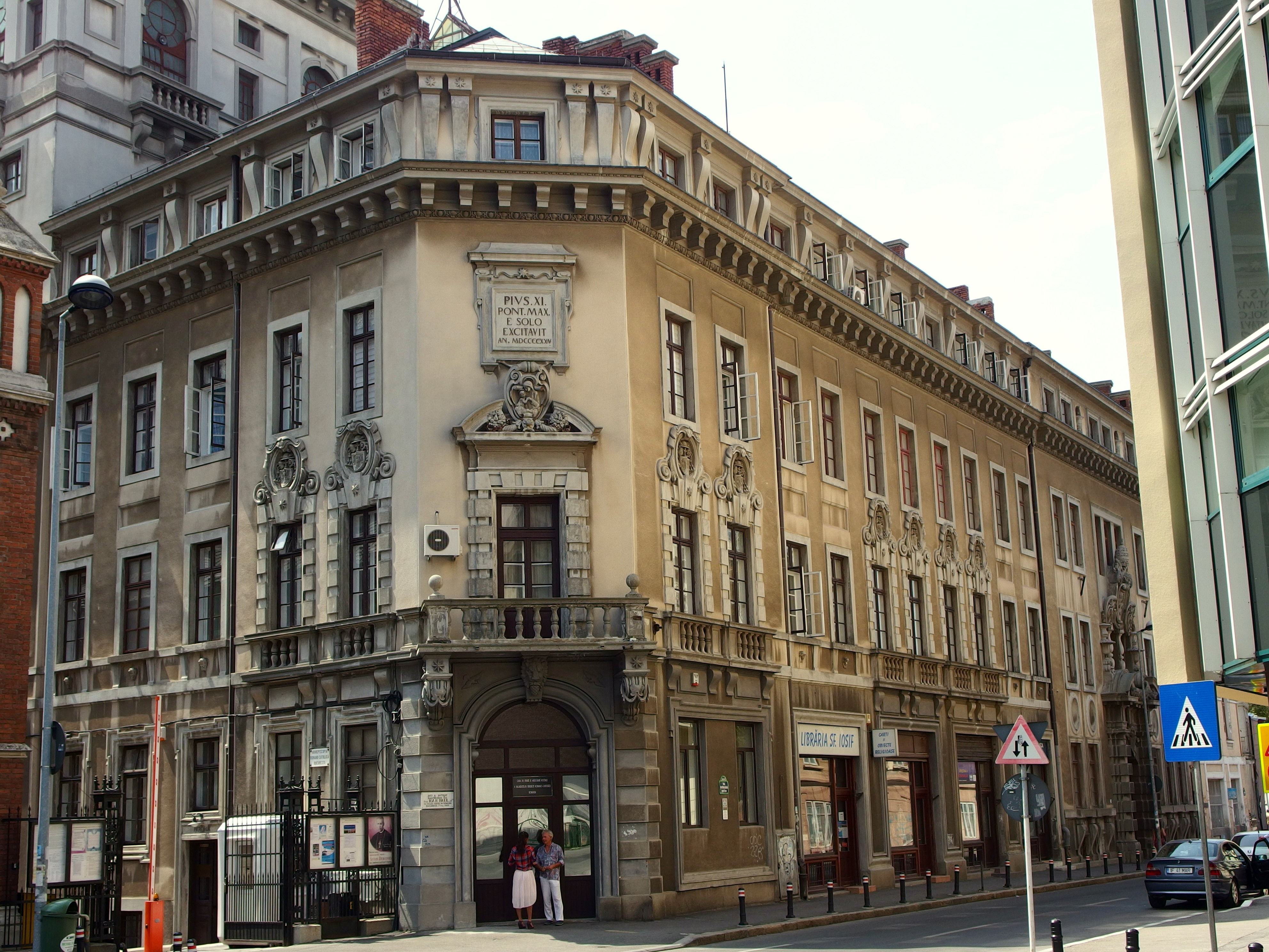 2014-08-16 in Bucharest. Archiepiscopal Palace of the Roman Catholic Archdiocese of Bucharest, Strada General Henri Mathias Berthelot, nr. 19, Bucharest, Romania.